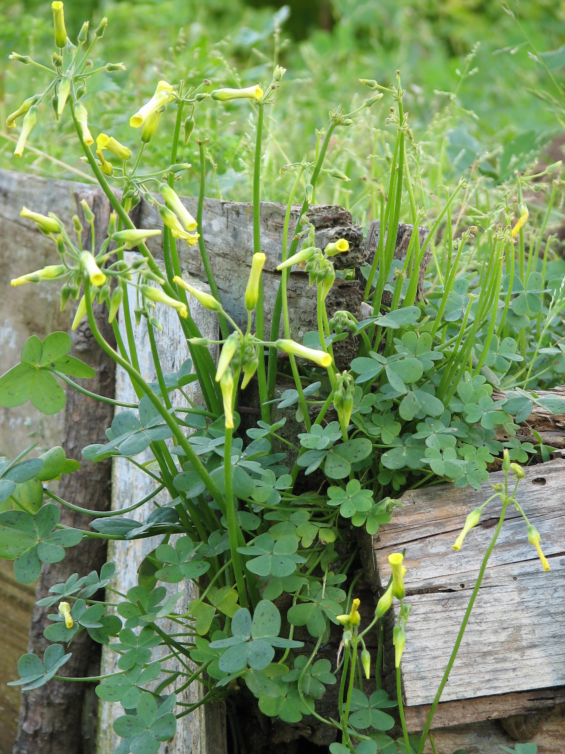 Oxalis pes-caprae with flowers; Author:Daniel Feliciano; Location: Torres Novas - Portugal